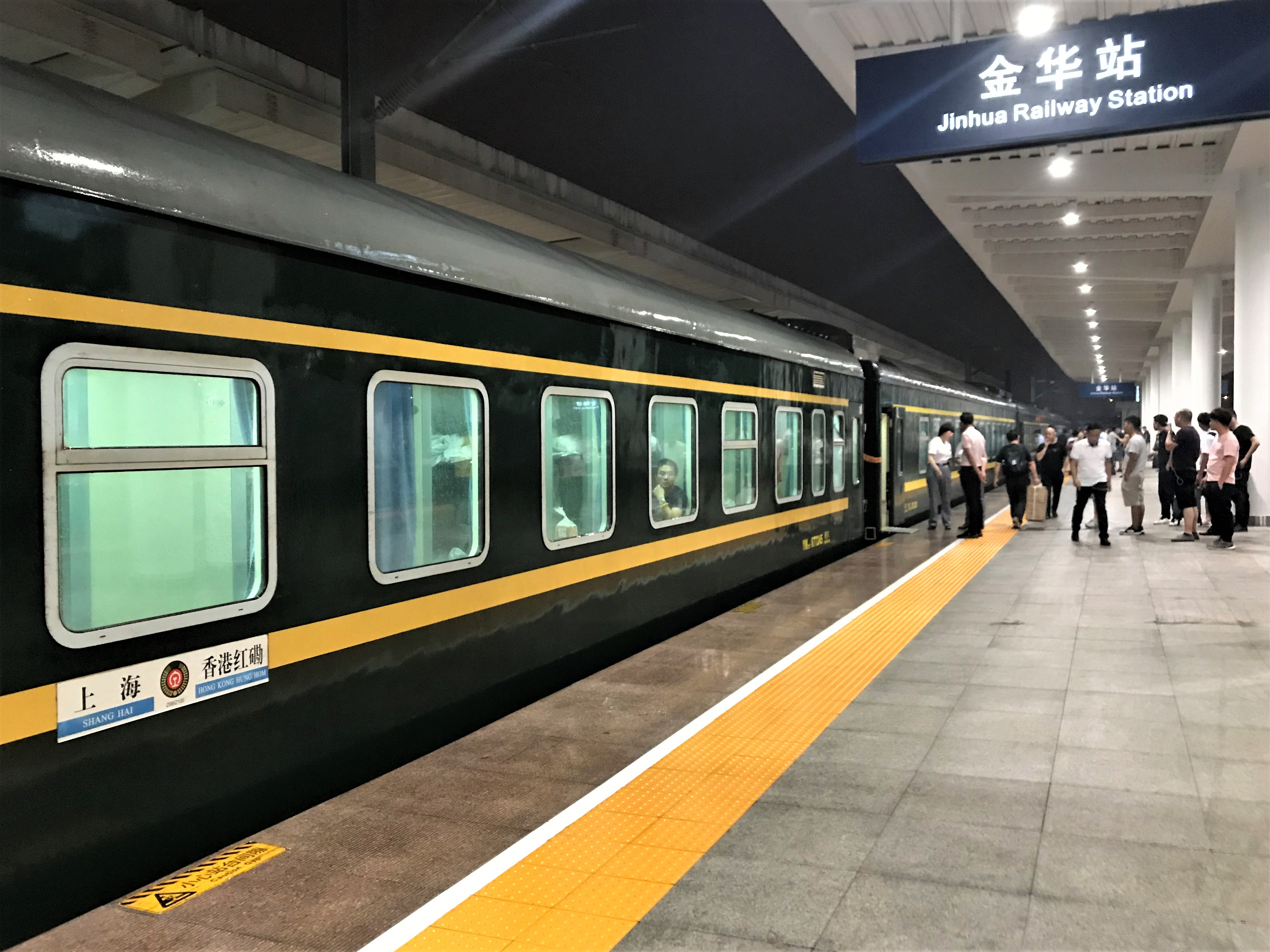 First shot with a train with the new infoboard at the new station.